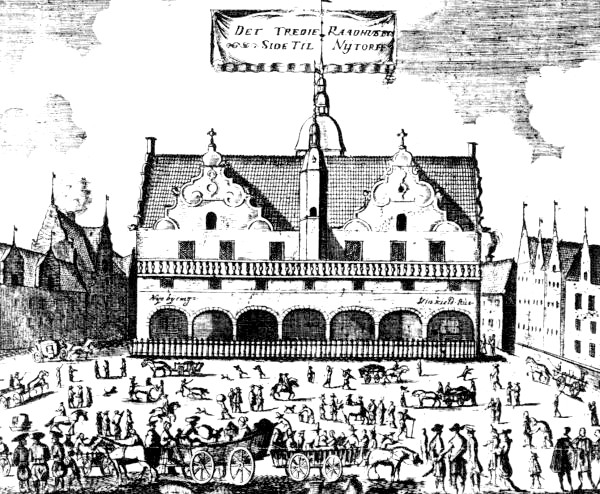 Copenhagen City Hall (1479-1728= after the dedesign in 1608-10 as seen from Nytorv (rear side, front faced Gammeltorv)